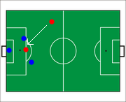 nullified offside position